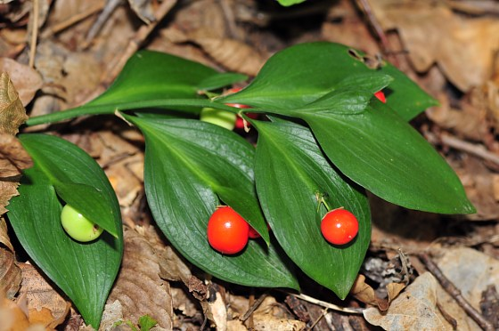 Ruscus hypoglossum L at The Grand Canyon Of Crimea